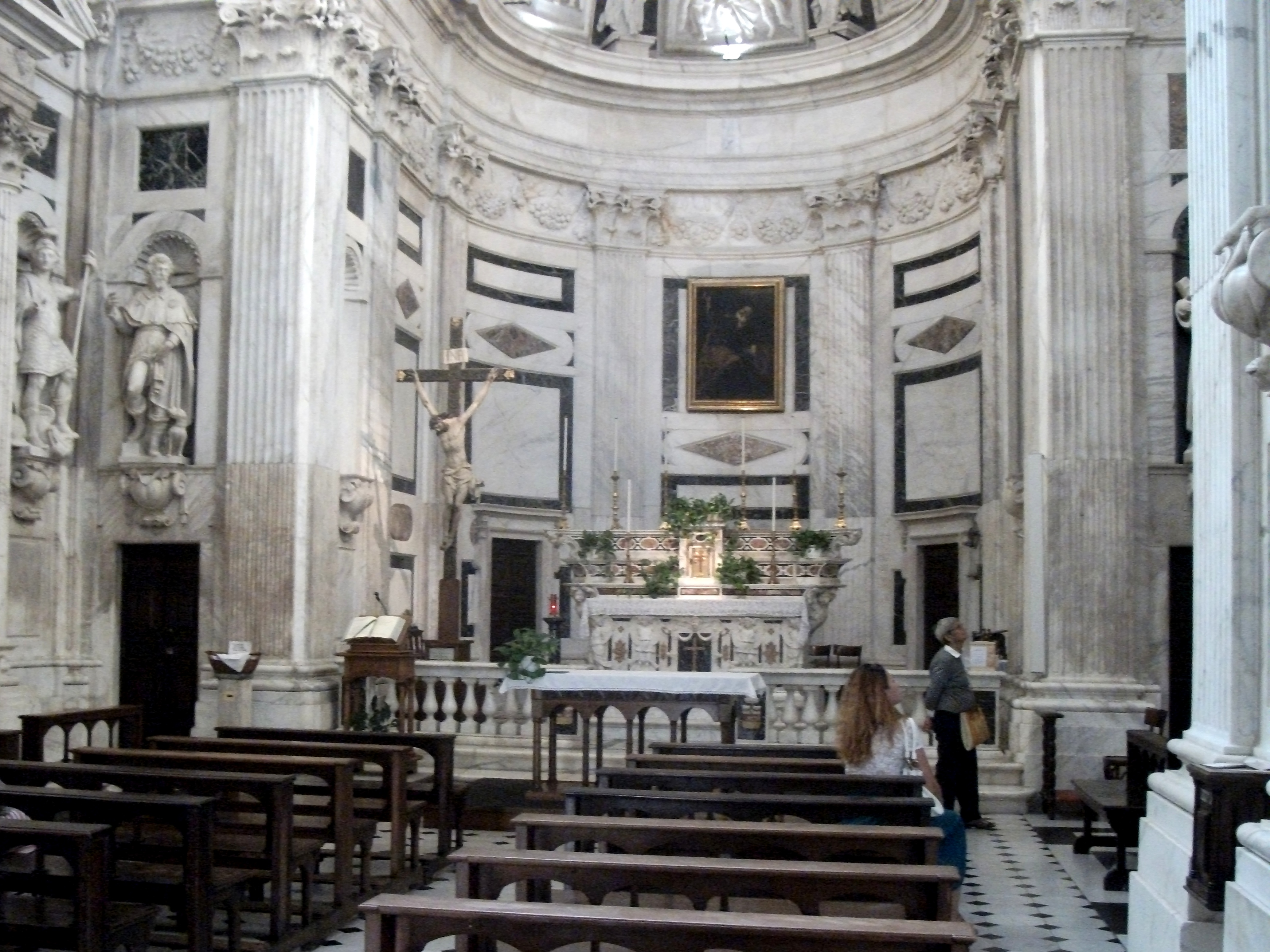 Church of Saint Peter in Banchi, Genoa, Liguria, Italy - interior